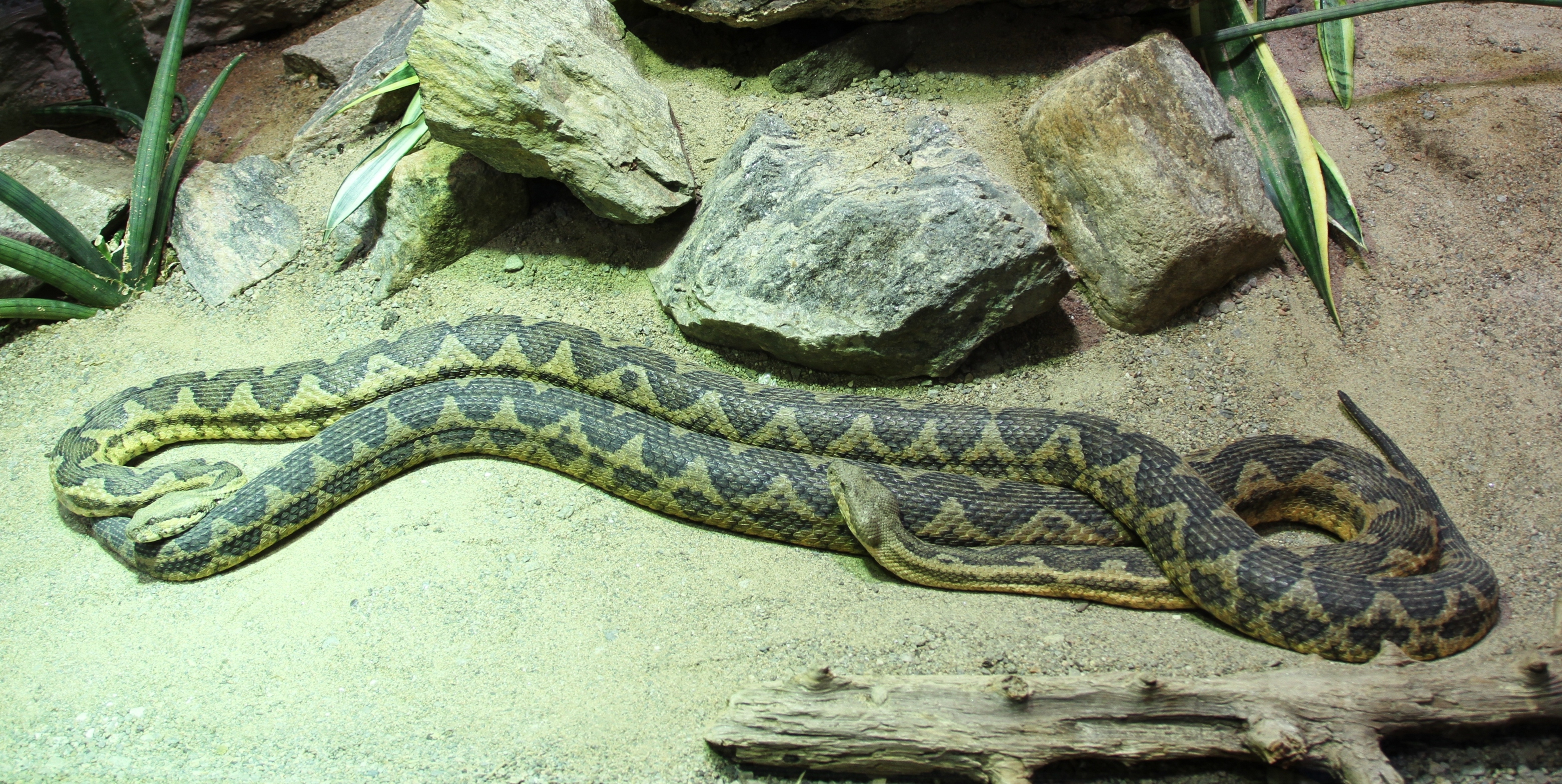 Macrovipera mauritanica in the Universeum Science Park, Gothenburg (Sweden)